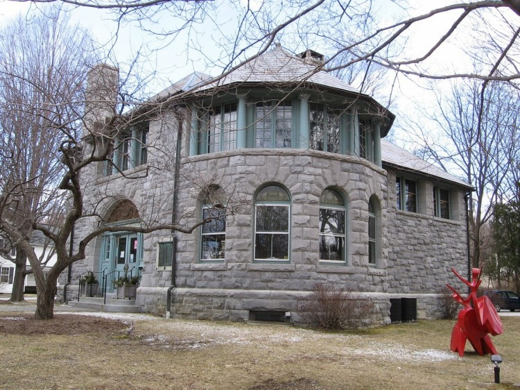 Hotchkiss Memorial Library, Sharon, Connecticut; part of the Sharon Center Historic District.